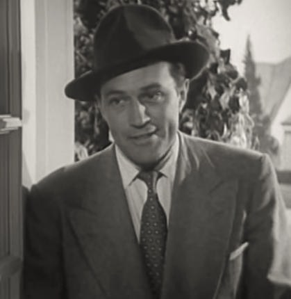 Don Haggerty in Cause for Alarm! - cropped screenshot